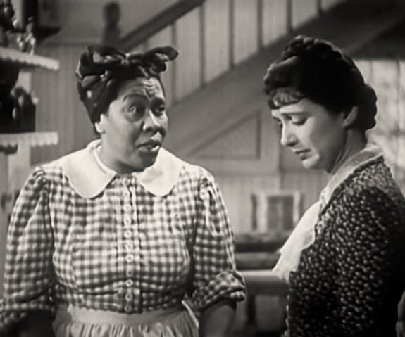 Lillian Randolph (left) & Kay Francis in Little Men - cropped screenshot